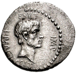 "Ides of March" denarius (obverse) of the conspirator Brutus